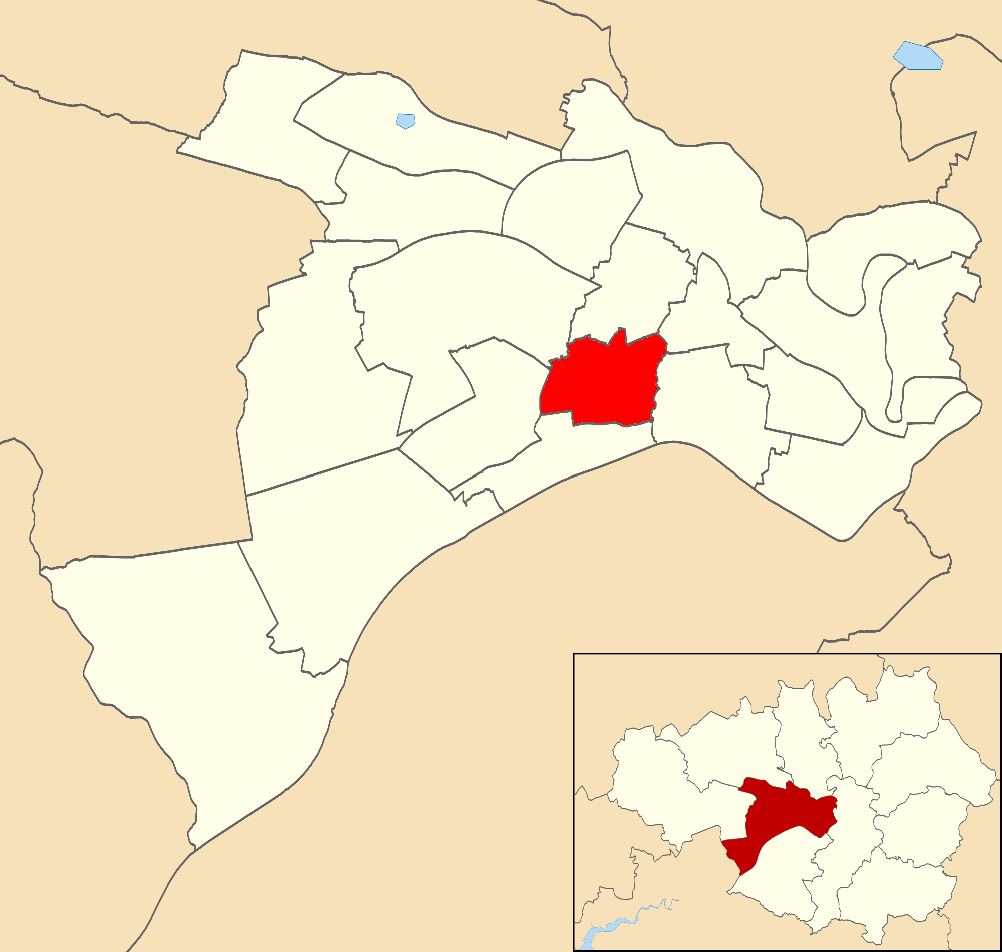 Map showing location of Eccles ward within Salford City Council.